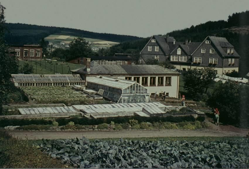 Reifensteiner Schule Wittgenstein